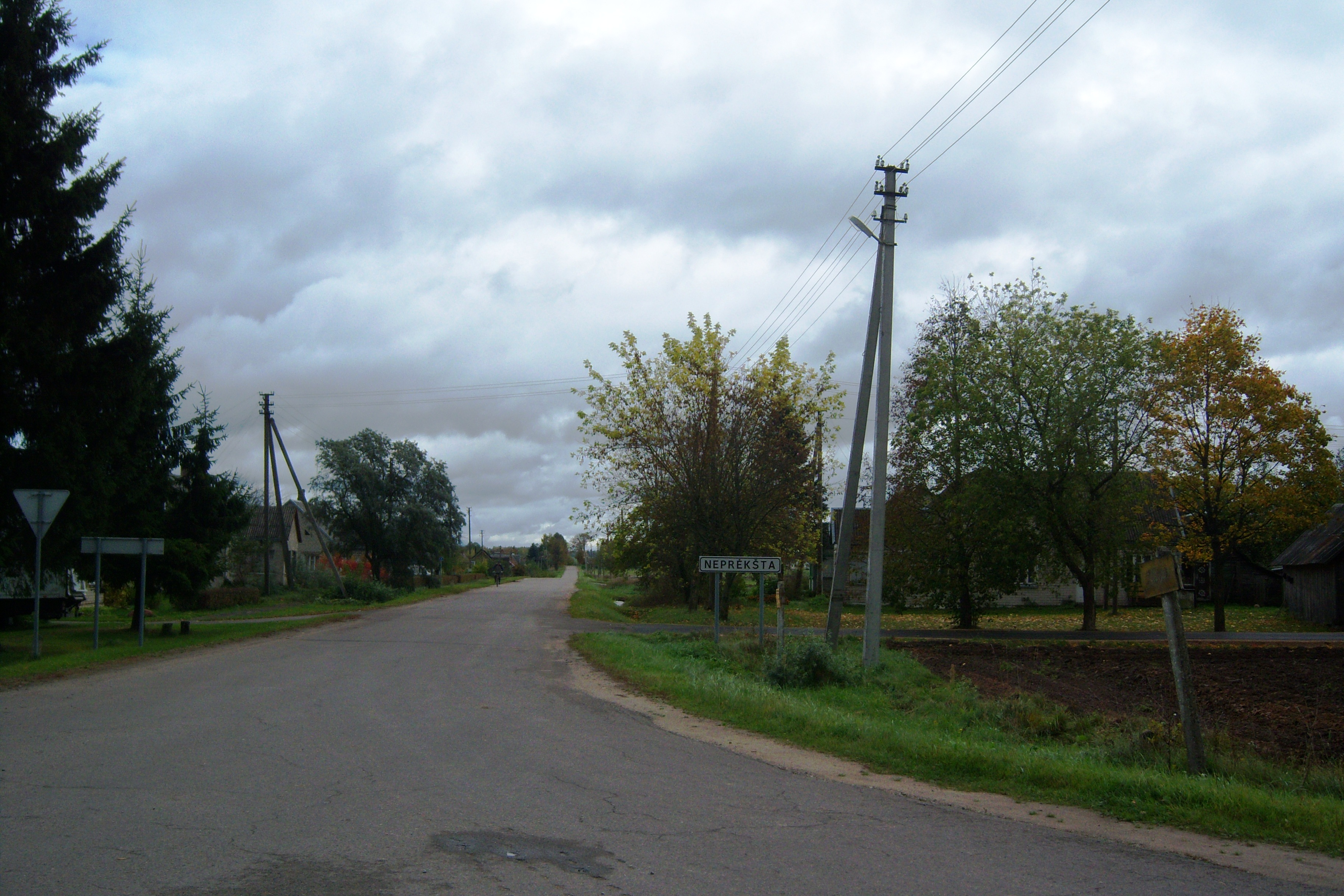 Neprėkšta, Kaišiadorys District, Lithuania